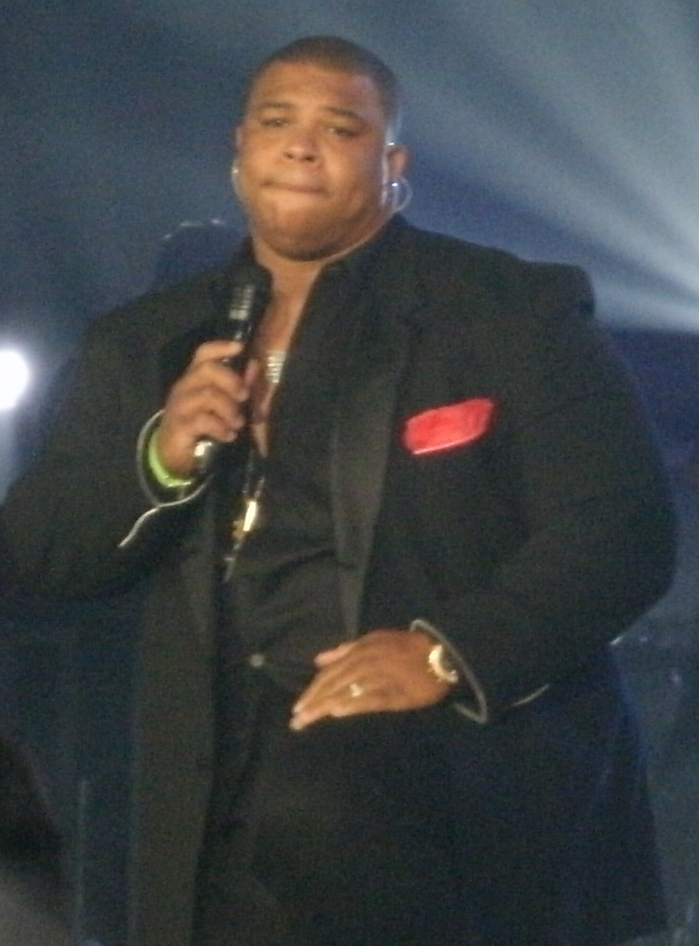 American R&B artist Michael Lynche performing in Bridgeport Connecticut during the American Idol season 9 tour in 2010.